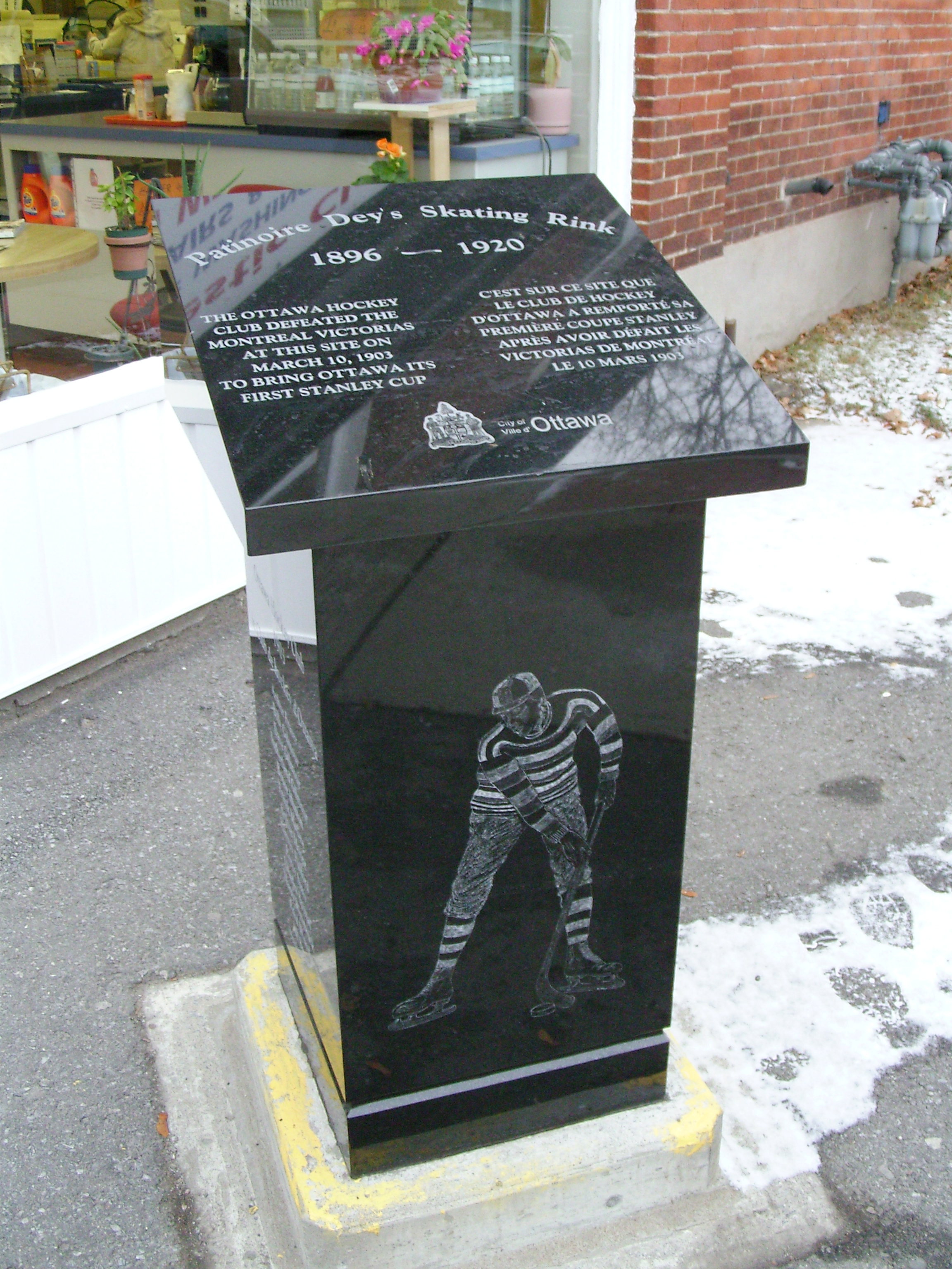 Memorial marker of Dey's Skating Rink and Ottawa Senators' first Stanley Cup championship.